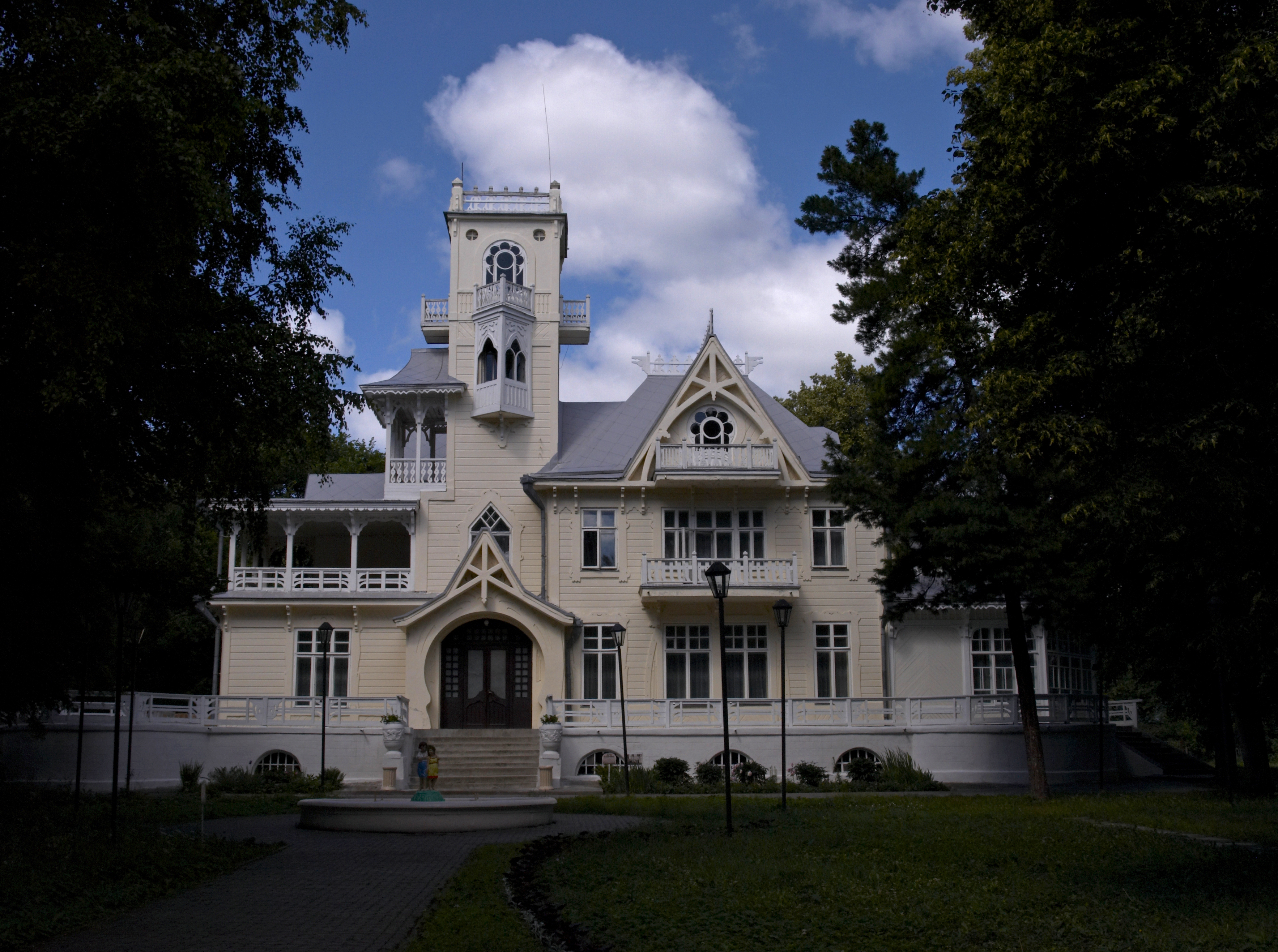 Bashenin datcha, Sarapul. 1911, presumably architect Charushin.